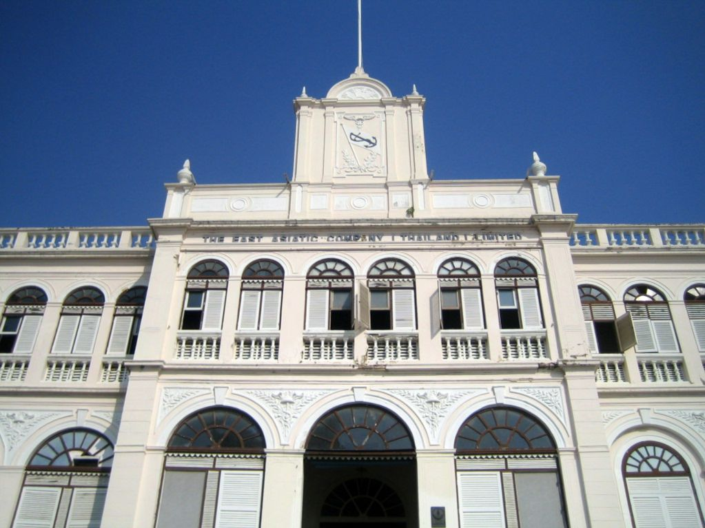 East Asiatic Company, Bangkok, Thailand.